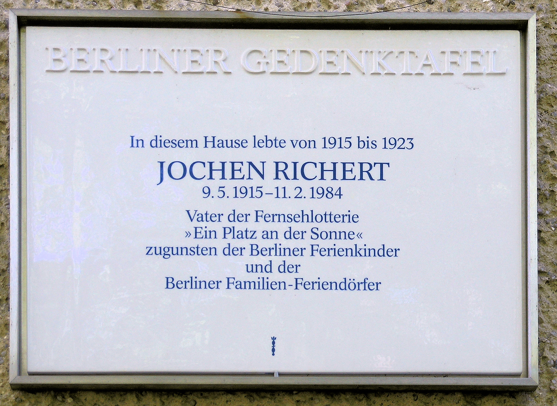 Memorial plaque, Jochen Richert, Königstraße 29, Berlin-Zehlendorf, Germany